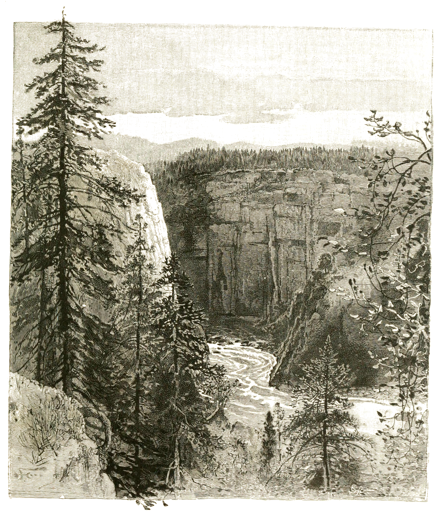 Caption: The cañon, a quarter of a mile below the Grand Falls. (From a photograph.)